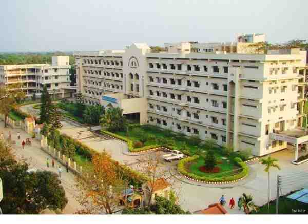 জহুরুল ইসলাম মেডিকেল কলেজ এন্ড হসপিটাল